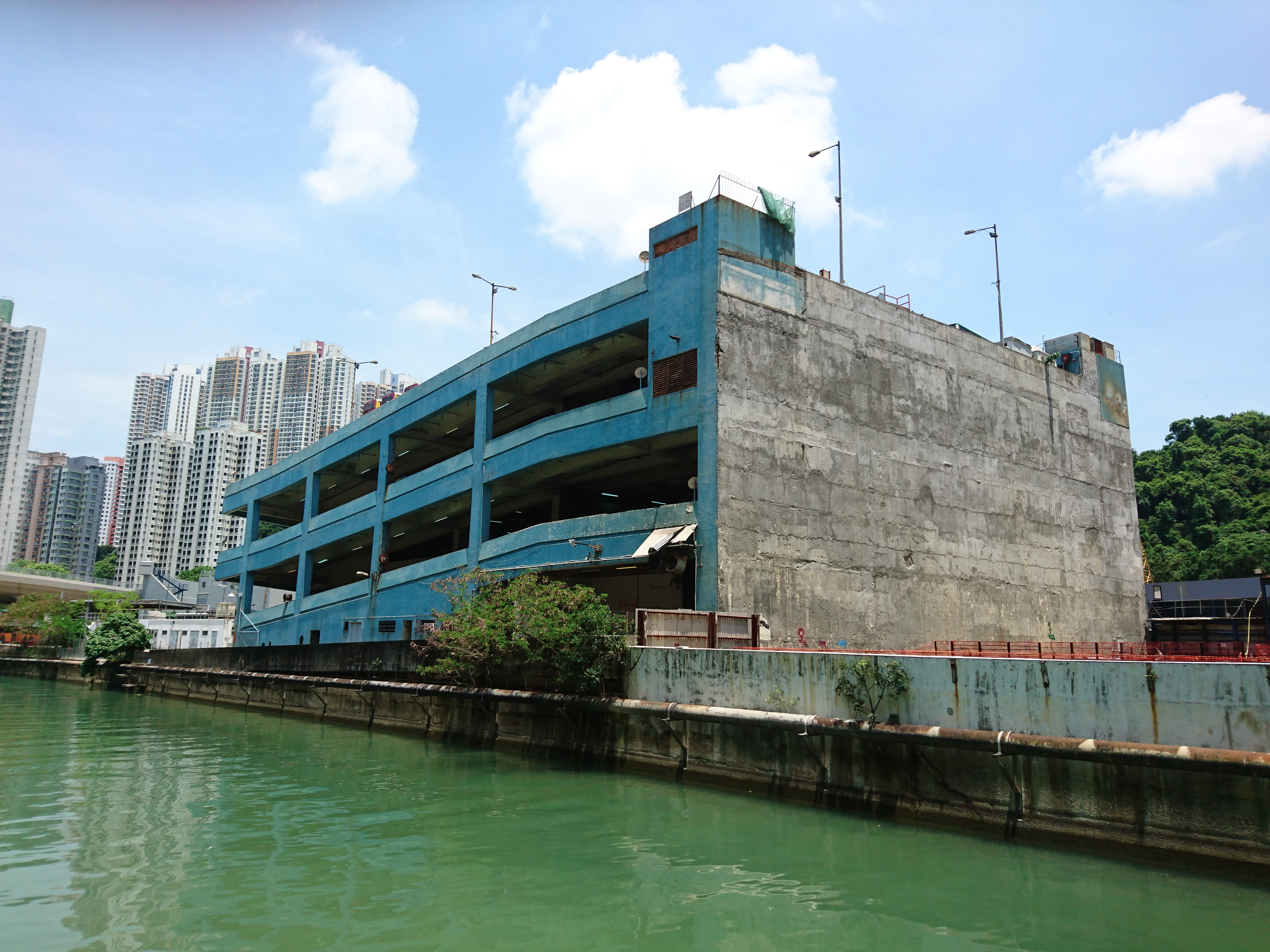 Wong Chuk Hang NWFB Bus Depot viewed from Southeast